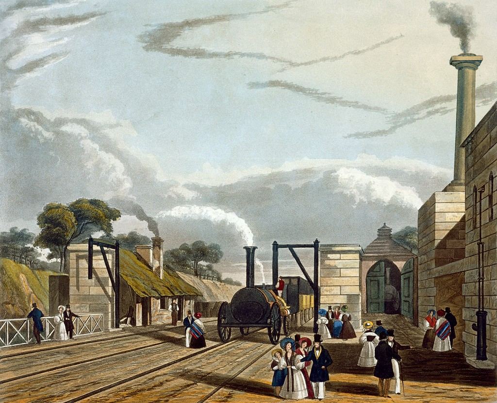 The original station at Parkside on the Liverpool and Manchester Railway, about half way between Liverpool and Manchester, where trains stopped to take on coke and water. It was here that the leading Liverpool M.P. and promoter of the railway William Huskisson was fatally injured on the railway's opening day in September 1830. With other passengers Huskisson had alighted from the train and was talking to the Prime Minister through the window of his special carriage when the Rocket began bearing down on the party on the other track. Huskisson tried to clamber into the Prime Minister's carriage, but the door that he was trying to pull himself up by swung open and was struck by the oncoming locomotive. Huskisson fell, and his leg was crushed by the engine. He died later that day.Parkside station was replaced in 1839 by a new station 350m to the east (which itself closed in 1878). But its site is recorded by a memorial to Huskisson by the side of the line with a marble plaque, close to the site of the accident.